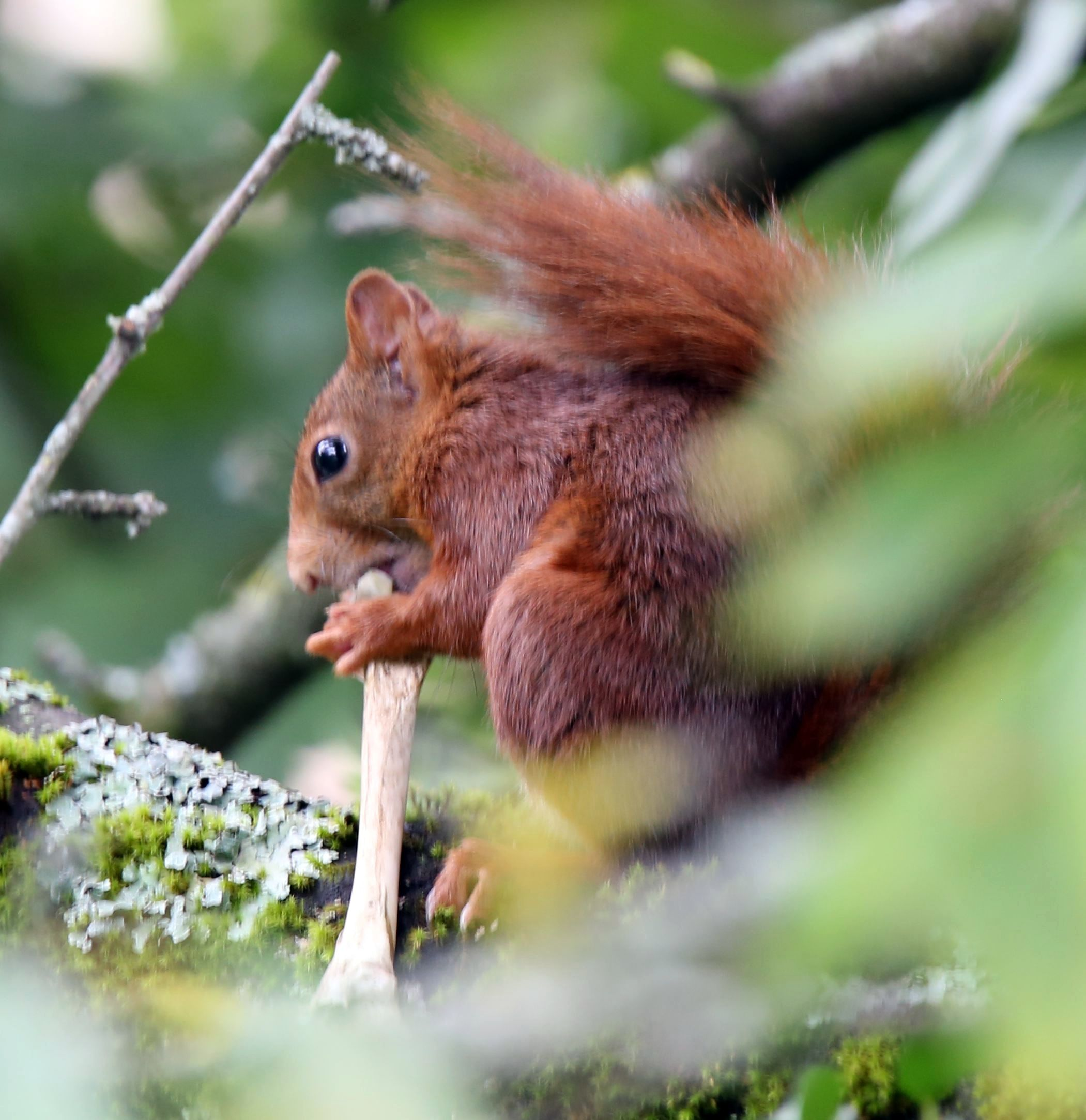 écureuil rongeant un os, squirrel gnawing a bone, Sciurus vulgaris